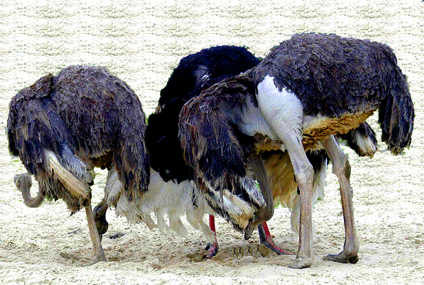 ostriches with heads (almost) in the sand